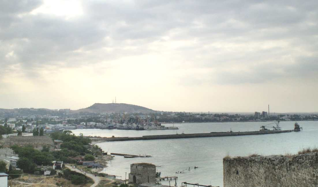 Panorama of Theodosia